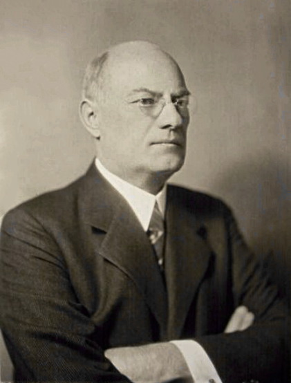 George Edward Crothers (1870-1957), a prominent alumnus, trustee, and benefactor of Stanford University. Date of photograph unknown.